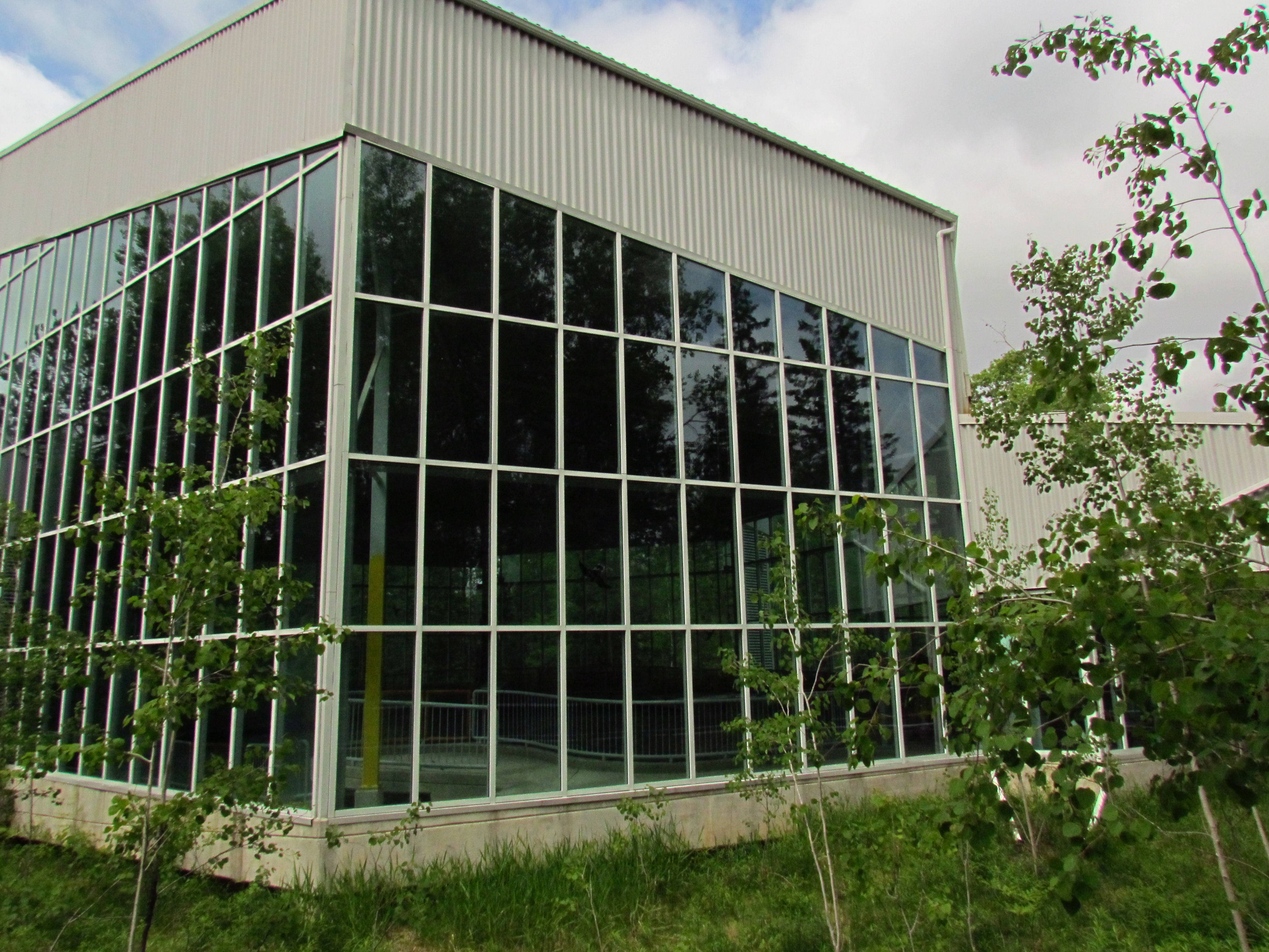 Building over petroglyph site, Petroglyphs Provincial Park, Woodview, Ontario, Canada